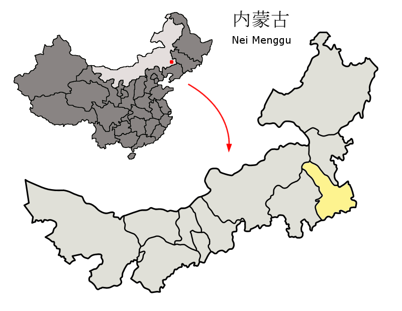 Location of Tongliao Prefecture (yellow) within Inner Mongolia Autonomous Region of China Map drawn in november 2007 using various sources, mainly : Inner Mongolia Autonomous Region administrative regions GIS data: 1:1M, County level, 1990 Inner Mongolia Counties map from